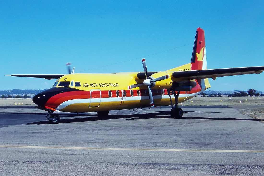 Air New South Wales Fokker F-27-500F Friendship at Wagga Wagga Airport